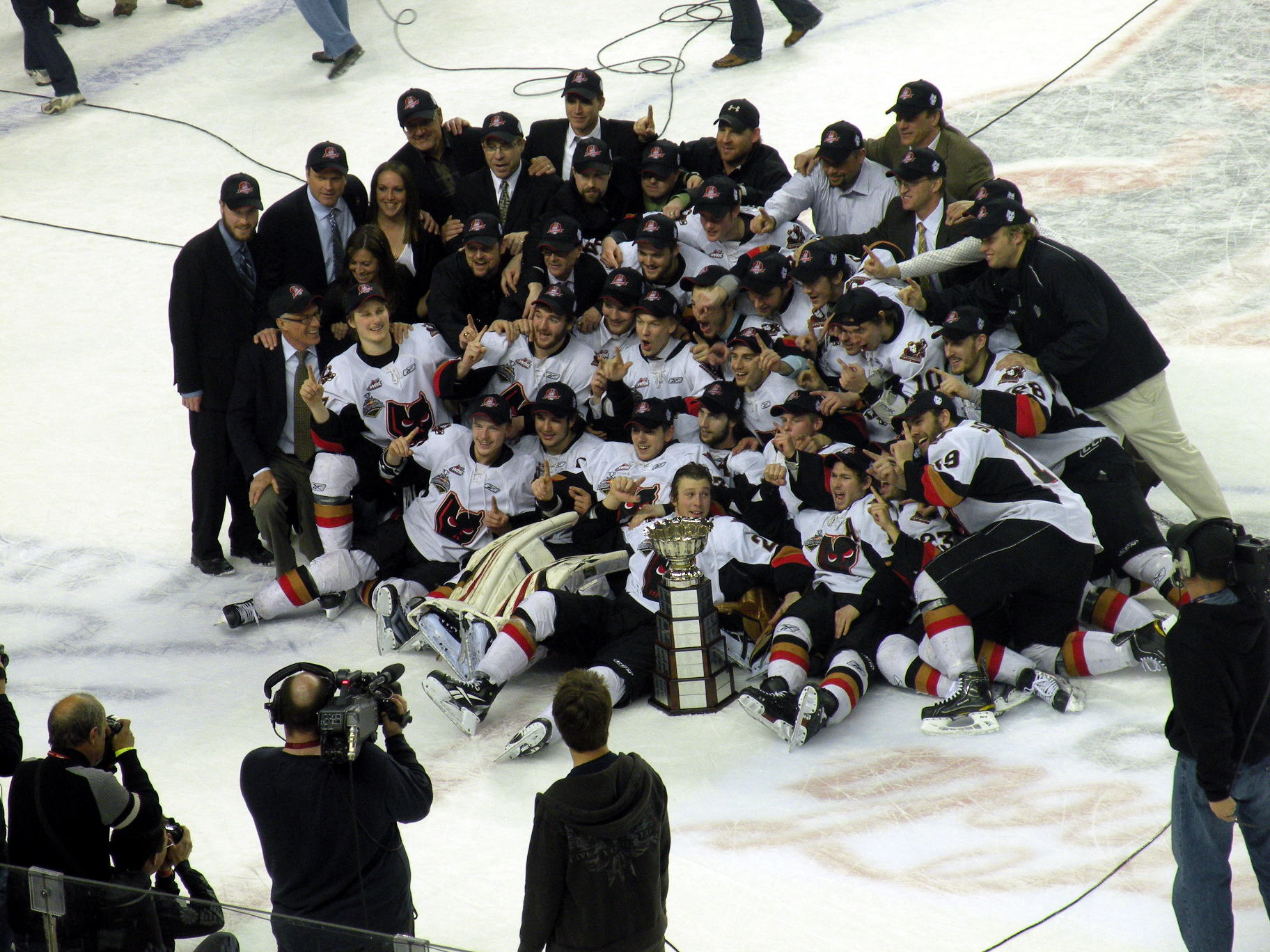 The Calgary Hitmen celebrate after winning the Western Hockey League's Ed Chynoweth Cup championship.